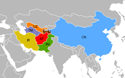 Locator map for Afghanistan and it's neighboring countries.